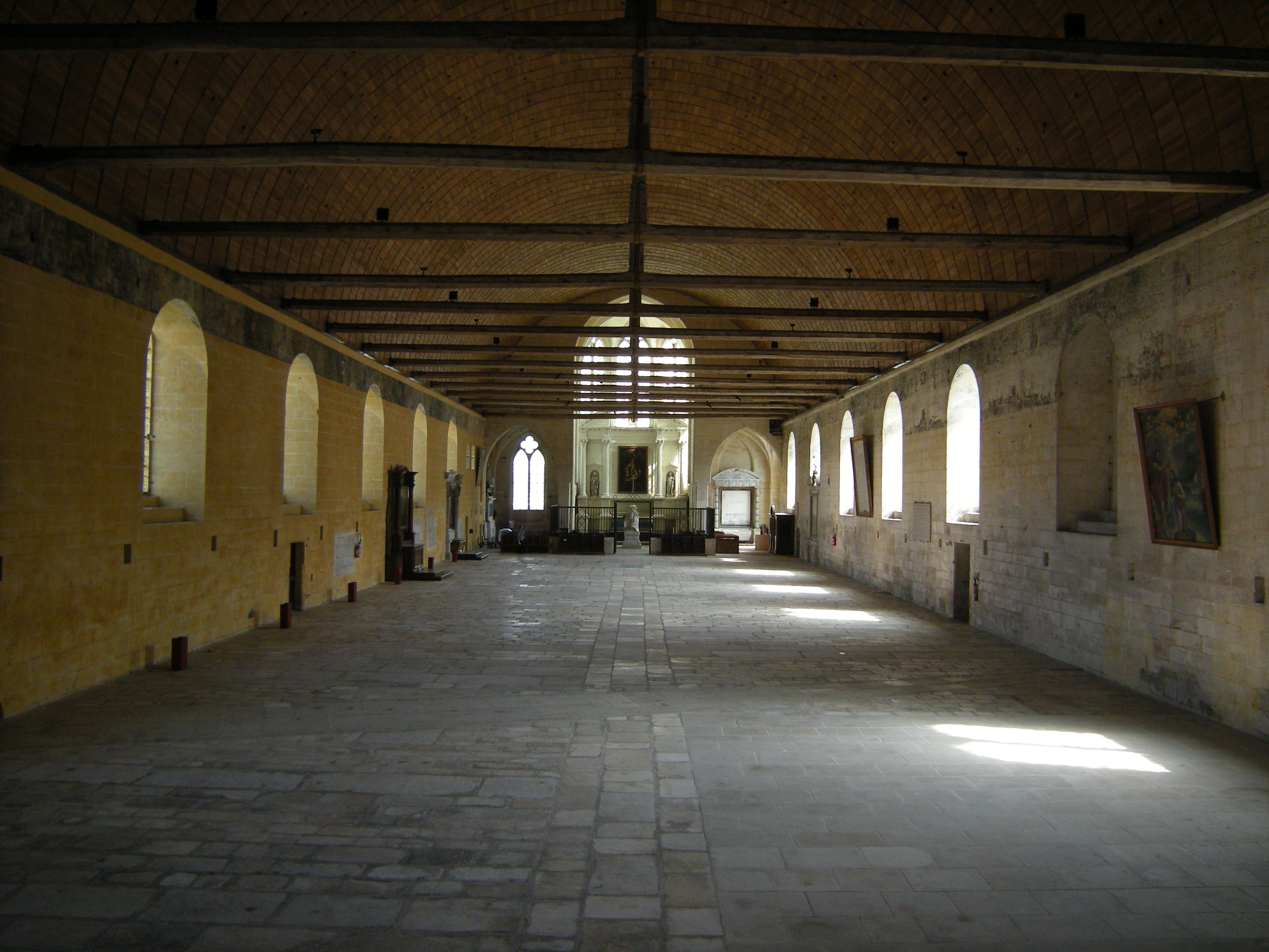 The main room of the Hôtel-Dieu in Tonnerre, France. It has been built in 1293. .